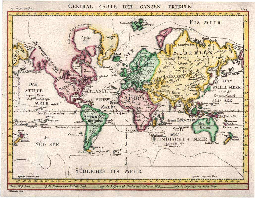 German map of World (1800).